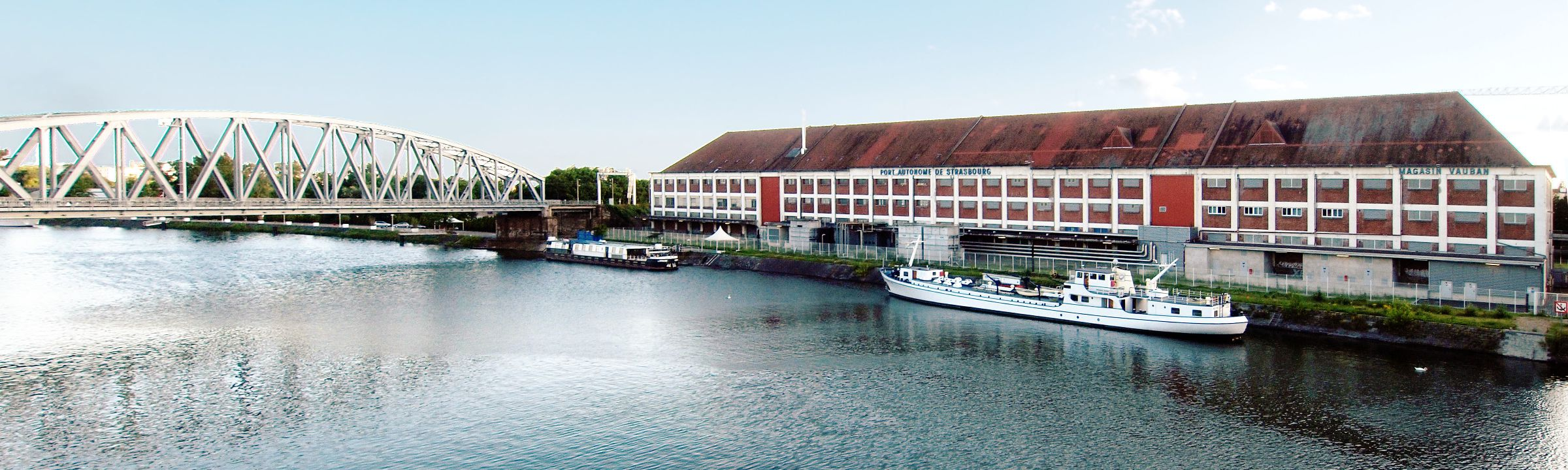 Magasin Vauban, an old storage building in the port of Strasbourg, France, converted to a data center. Training ship Prinses Irene.